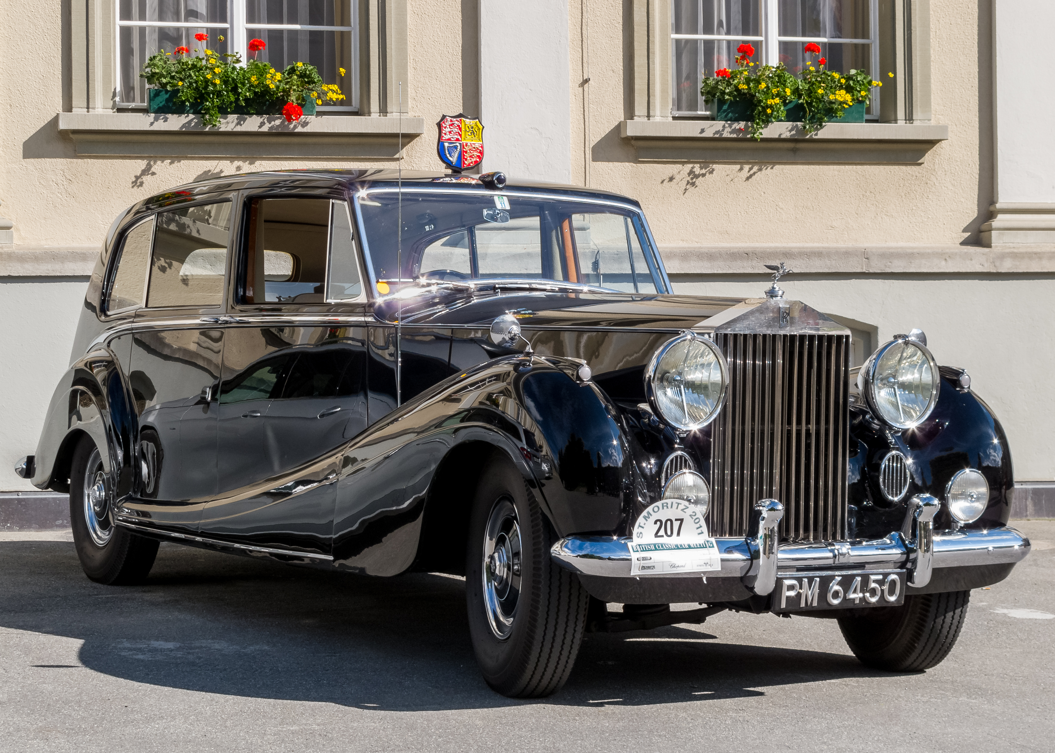 Rolls Royce Phantom IV. First owner: Princess Margaret